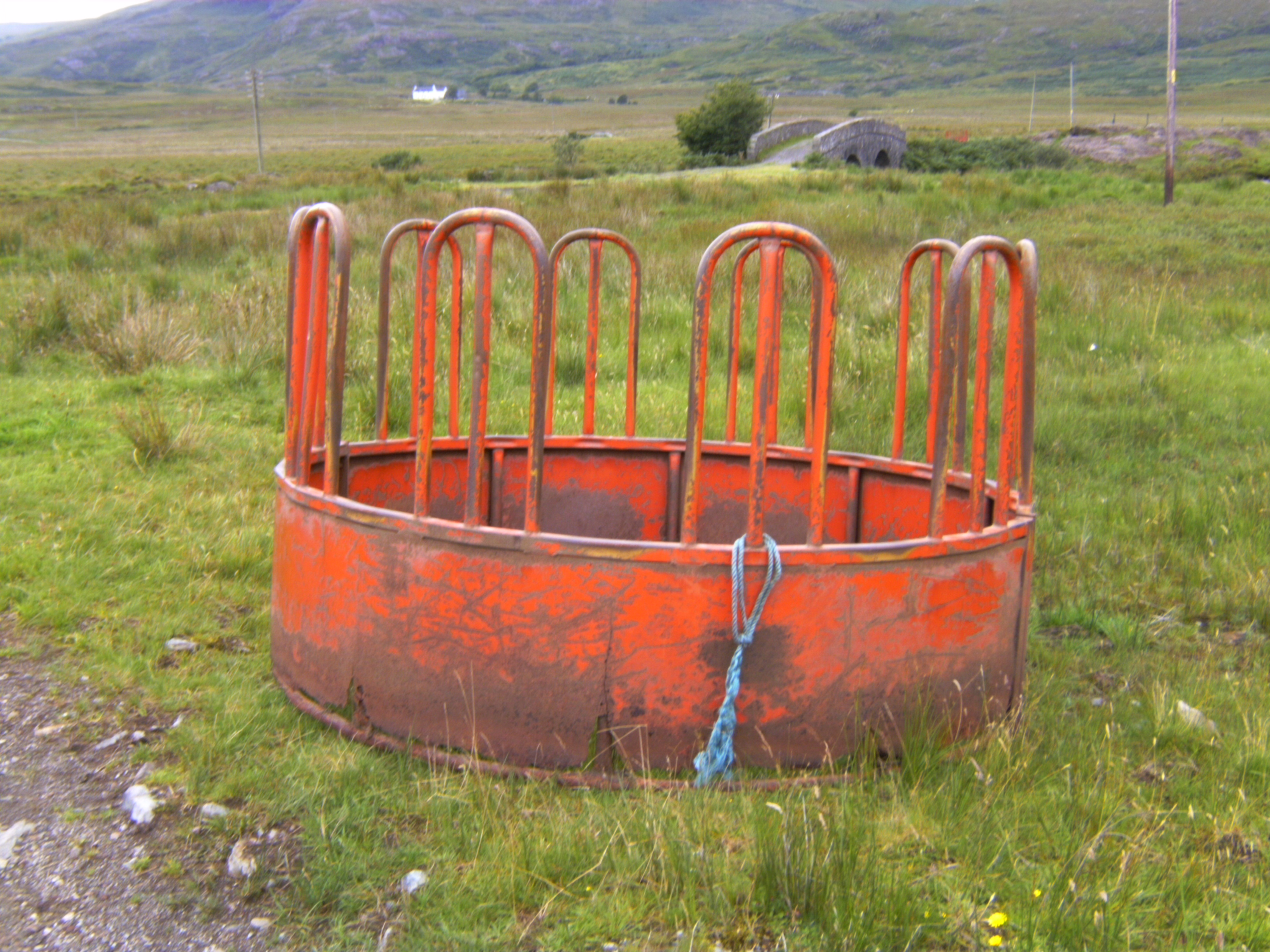 Cratch, seen on Mull